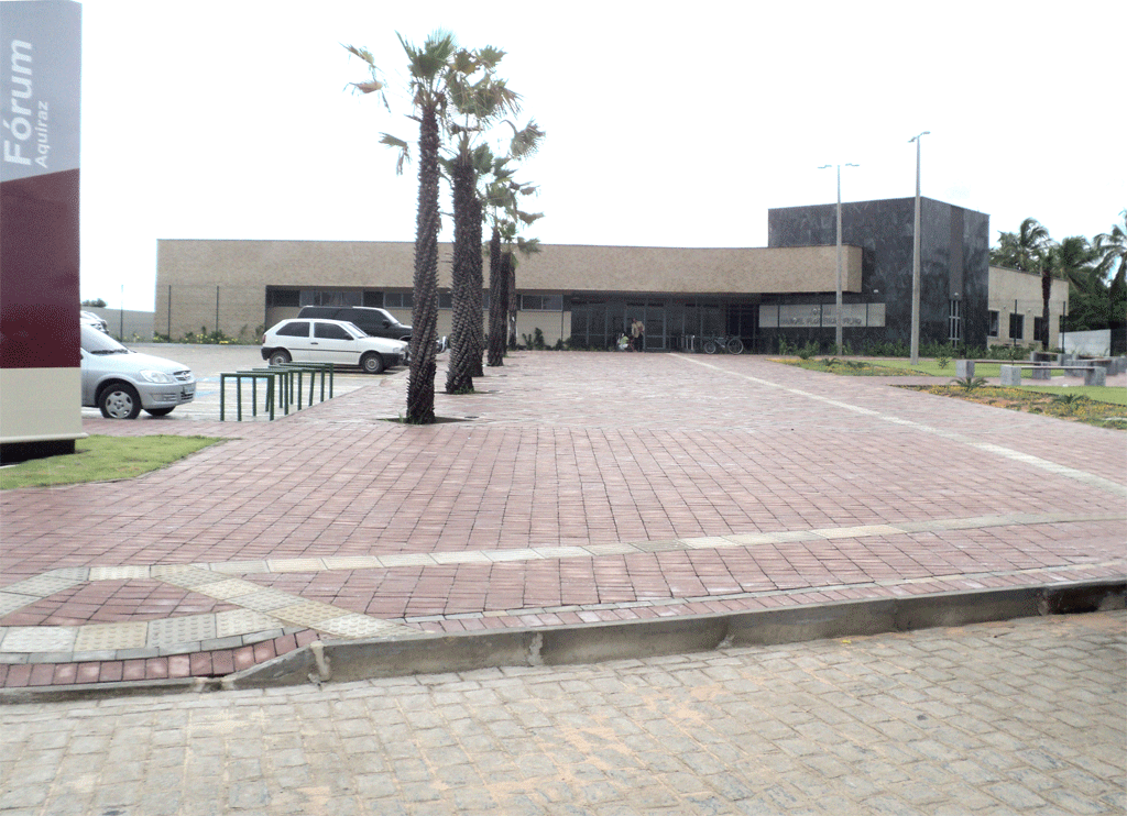 Forum from Aquiraz